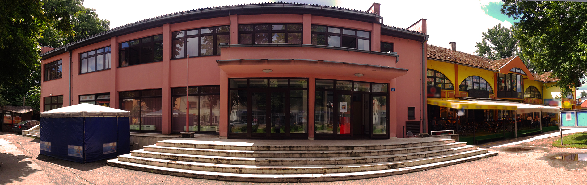 Front view of the `Branislav Nusic` Amateur Drama Theatre.